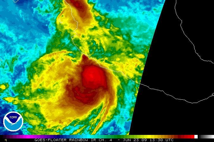 TS Andres as of 23 jun 2009 1330UTC